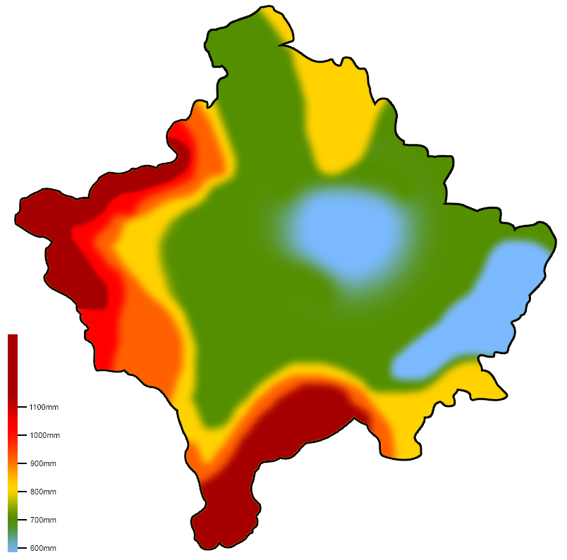 This map shows the precipitation values around Kosovo.